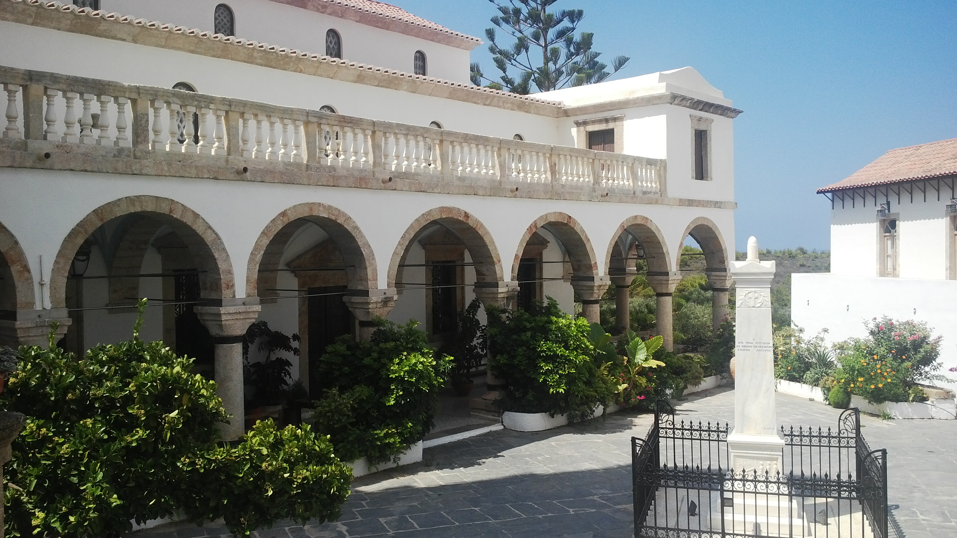 Myrtidion monastery, Kythera